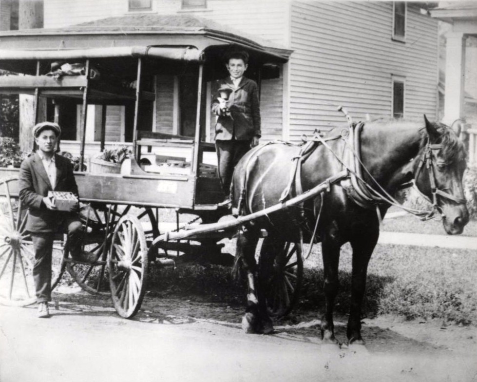 Original title: David and Harry Silverman in their fruit peddling cart, St. Paul. Jewish Historical Society of the Upper Midwest, Set 72157623459584475, ID 4418714855. Many Jews were in the peddling business in the early part of the century. Items peddled included fruits and vegetables, clothing and housewares. Date: 1920 Source: Jewish Historical Society of the Upper Midwest, Set 72157623459584475, ID 4418714855. From the Steinfeldt Photography Collection of the Format: Black and white photo, 20 cm x 25.2 cm Subject: Business and industry; St. Paul--businesses; Peddlers; Peddling; Horse drawn cart Coverage: St. Paul; Ramsey; Minnesota; United States Local Identifier: 0910P Link to our record